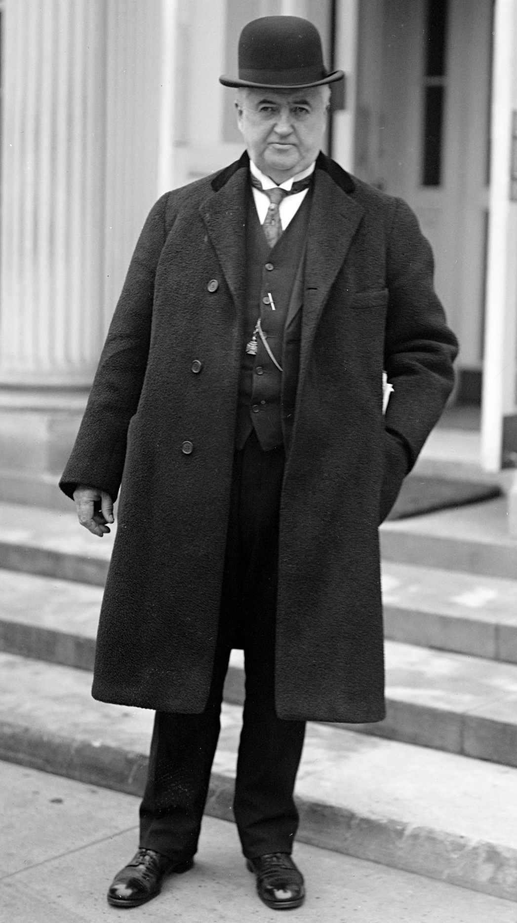 William Kennedy, US Representative from Connecticut